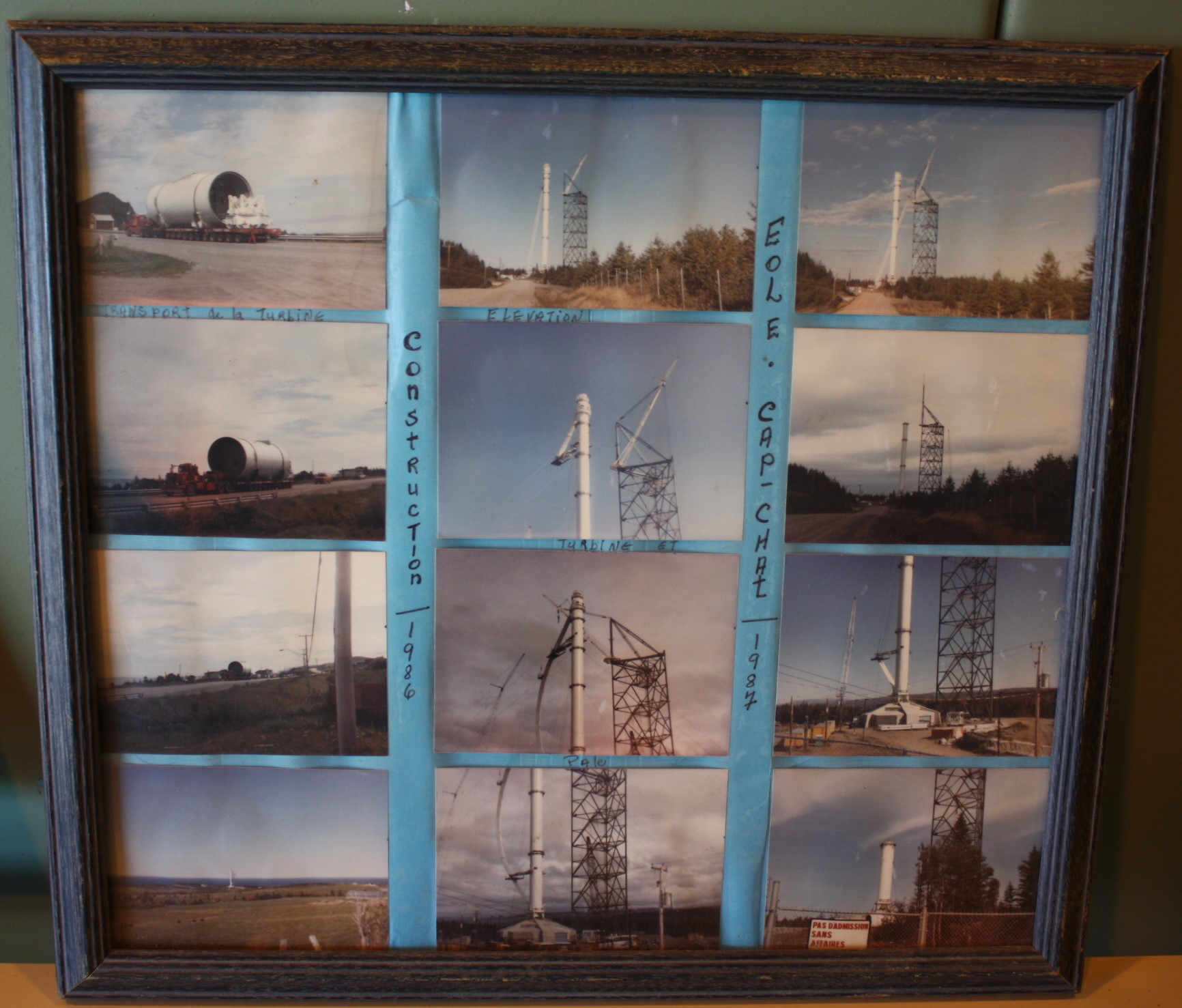 Construction stages of the Éole wind turbine in Cap-Chat (Quebec) 1986-1987